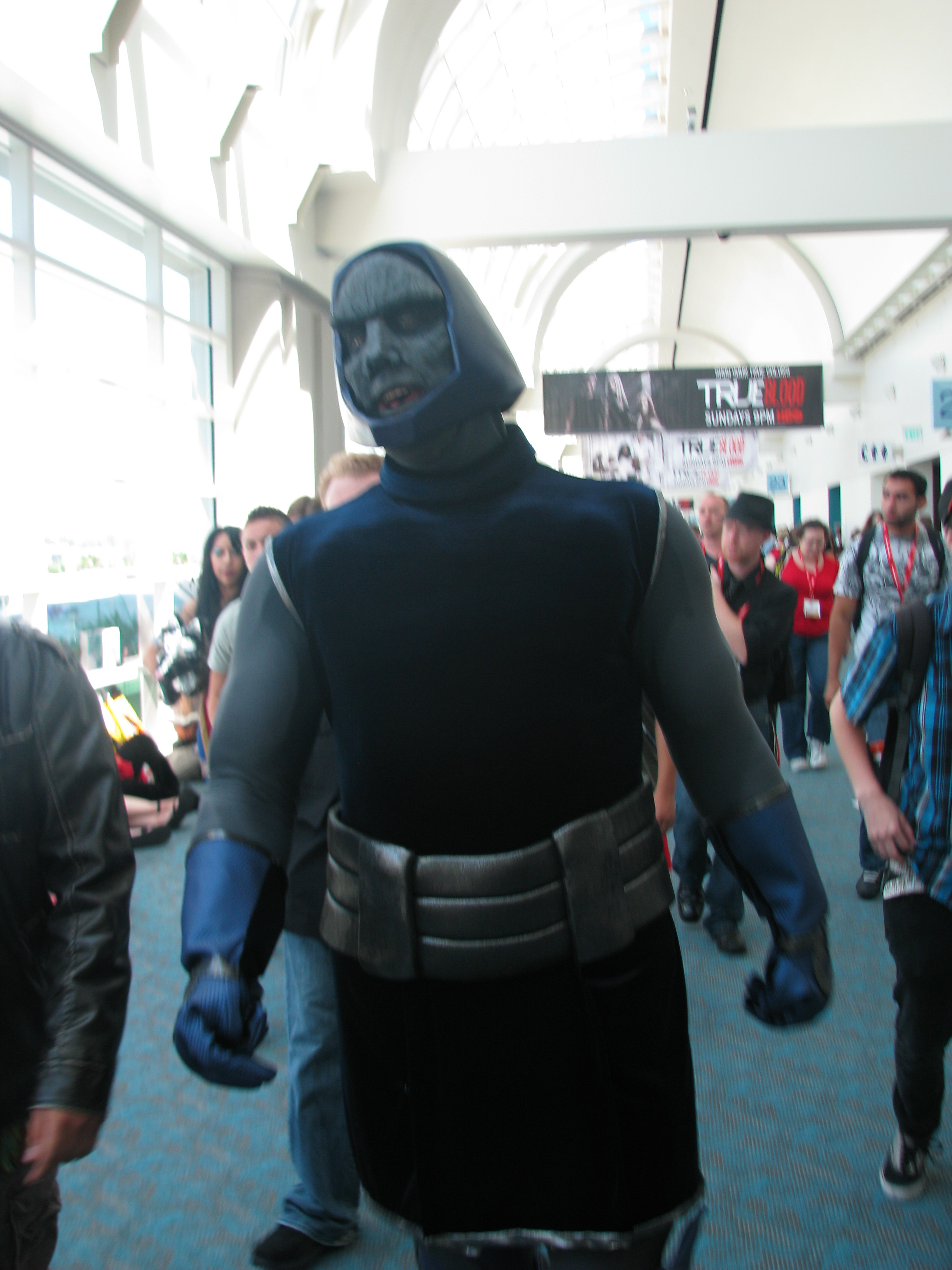 Cosplay at San Diego Comic Con (SDCC) 2011.